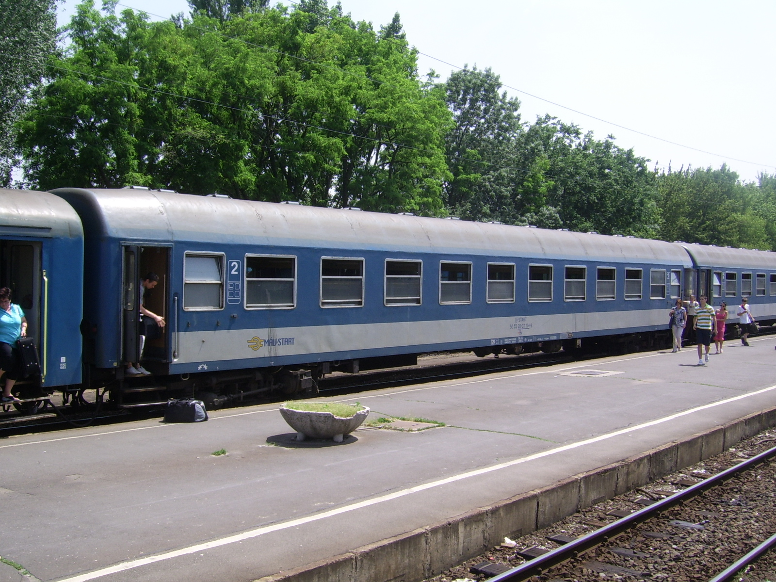 Type Bo Hungarian railway coach in Szeged, just arrived from Budapest as part of the Aranyhomok InterCity (Golden Sand IC).